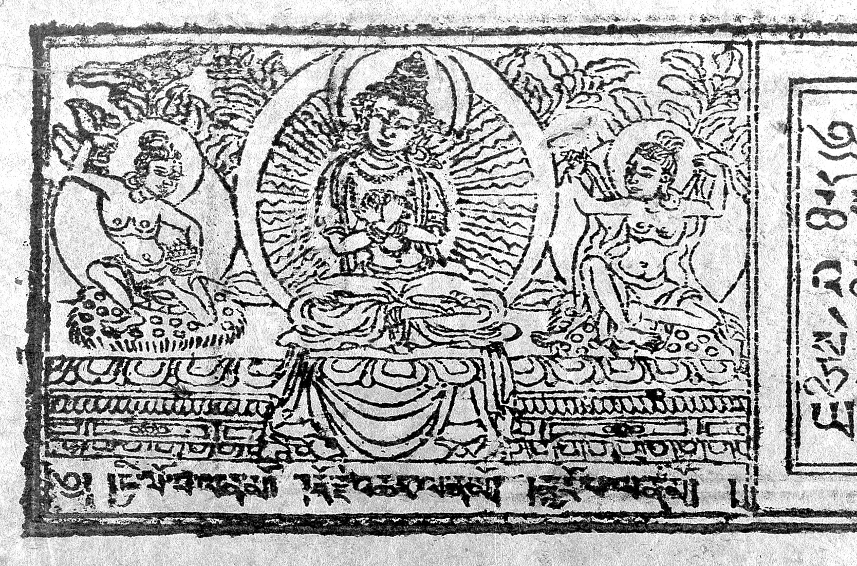 rje btsun Mi la ras pa'i rnam... "Lord Milarepa's hundred thousand songs in addition to his biography", (religious poetry and legendary biography). Asian Collection Keywords: milarepa